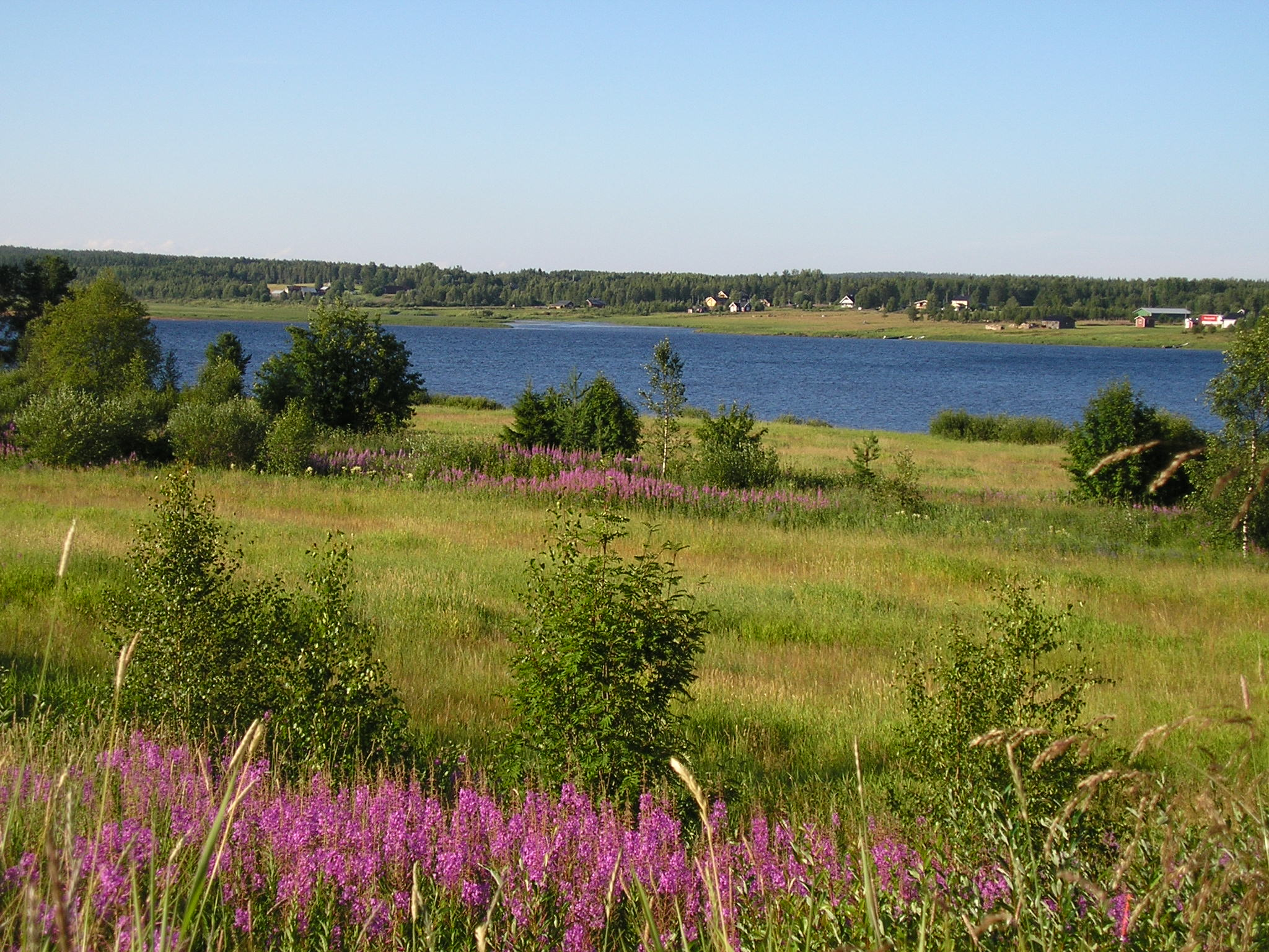 Tornevalley